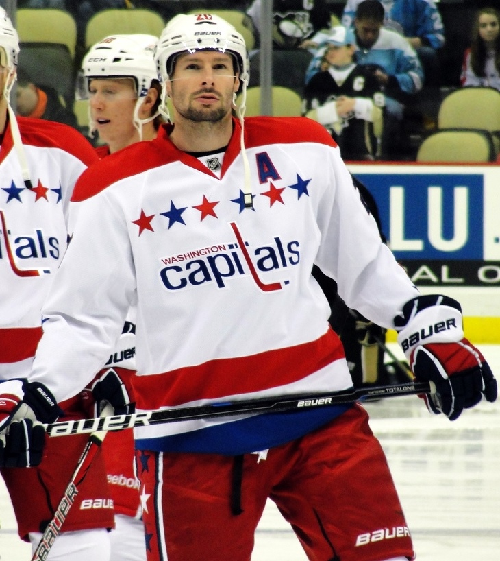 Troy Brouwer of the Washington Capitals warms up before a game against the Pittsburgh Penguins January 22, 2012 at Consol Energy Center in Pittsburgh, PA. From PensAreYourDaddy